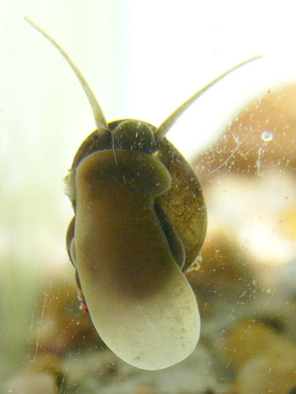 Bithynia_tentaculata. Determined by myself.